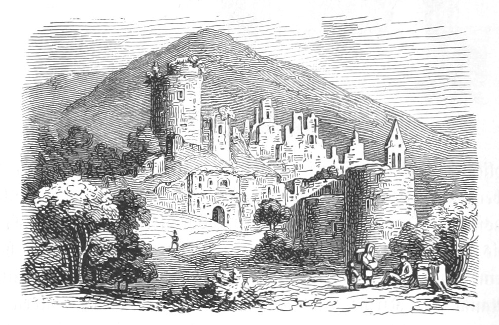 Image extracted from page 432 of above (page number relates to the digital version and can differ from the pagination within the book). Original held and digitised by the British Library. Note: The colours, contrast and appearance of these illustrations are unlikely to be true to life. They are derived from scanned images that have been enhanced for machine interpretation and have been altered from their originals.